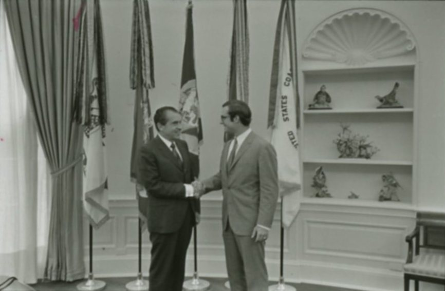 ● Frame(s): WHPO-3985-01-02, Chris DeMuth standing with the President Nixon in the Oval office. 7/23/1970, Washington, D.C., White House, Oval Office.. President Nixon, Chris DeMuth ● Frame(s): WHPO-3985-03, Chris DeMuth standing with the President Nixon and Daniel Patrick Moynihan in the Oval office. 7/23/1970, Washington, D.C., White House, Oval Office.. President Nixon, Chris DeMuth, Daniel Patrick Moynihan ● Frame(s): WHPO-3985-04, Chris DeMuth standing with the President Nixon and John Whitaker in the Oval office. 7/23/1970, Washington, D.C., White House, Oval Office.. President Nixon, Chris DeMuth, John C. Whitaker. ● Frame(s): WHPO-3985-06-08, President Nixon seated at his Oval office desk during a meeting with the President of the National Association of Manufacturers Warner P. Gullander, Deputy Assistant Kenneth E. Belieu, Special Counsel Charles W. Colson, and Chairman of the Nat'l Assoc. of Manufacturers W.W. Keeler. 7/23/1970, Washington, D.C., White House, Oval Office.. President Nixon, Charles W. Colson, Warner P. Gullander, W.W. Keeler, Kenneth E. Belieu, Presidential Assistant Peter M. Flanigan noted on Contact Sheet by photographer, not noted in the Presidential daily diary as in attendance here)